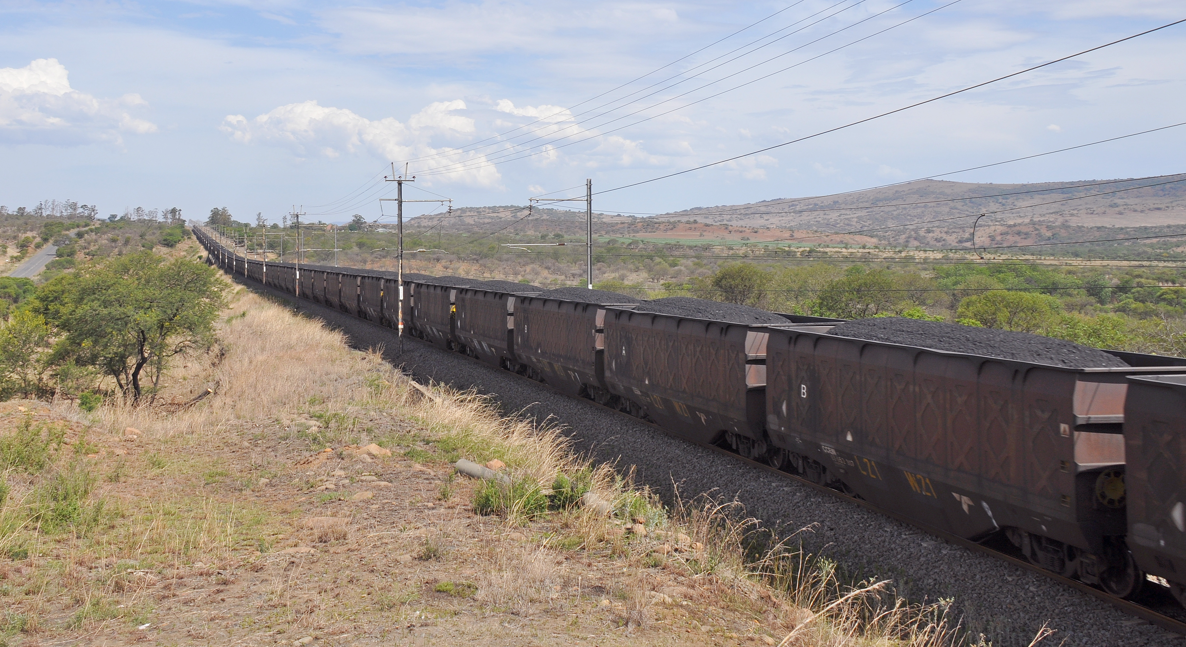 A loaded 200 wagon jumbo car rake with 4 x 11E heading for Richards Bay climbs the hill after crossing the Ishoba stream.